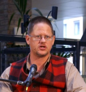 William T. Vollmann in 2006